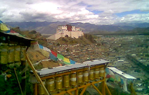 Shigatse Dzong — fort in village of Shigatse, in Tibet.